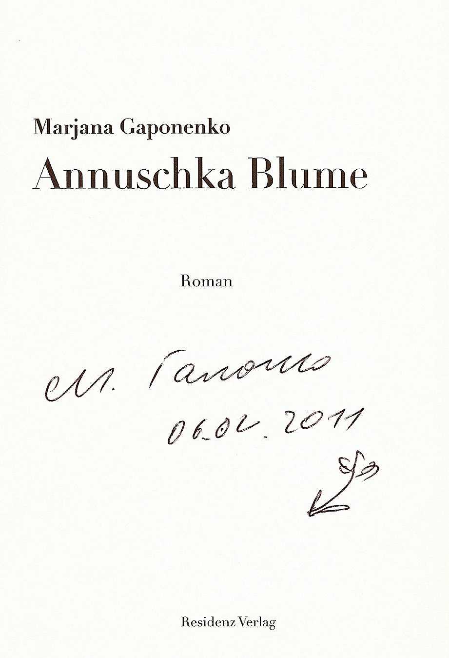 Autograph from Marjana Gaponenko, Ukrainian writer, 2011 in Frankfurt am Main, Germany.